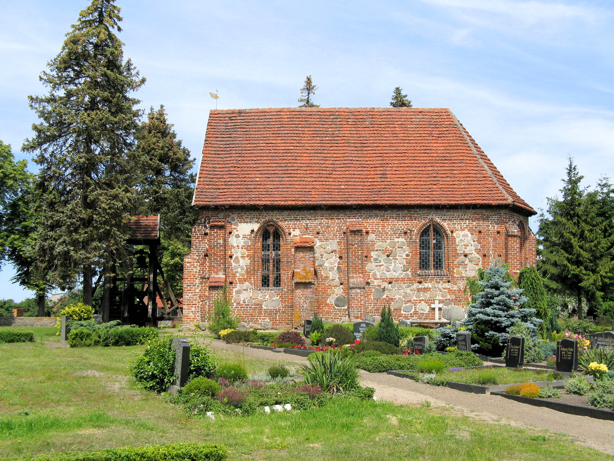 Church in Garwitz, disctrict Parchim, Mecklenburg-Vorpommern, Germany